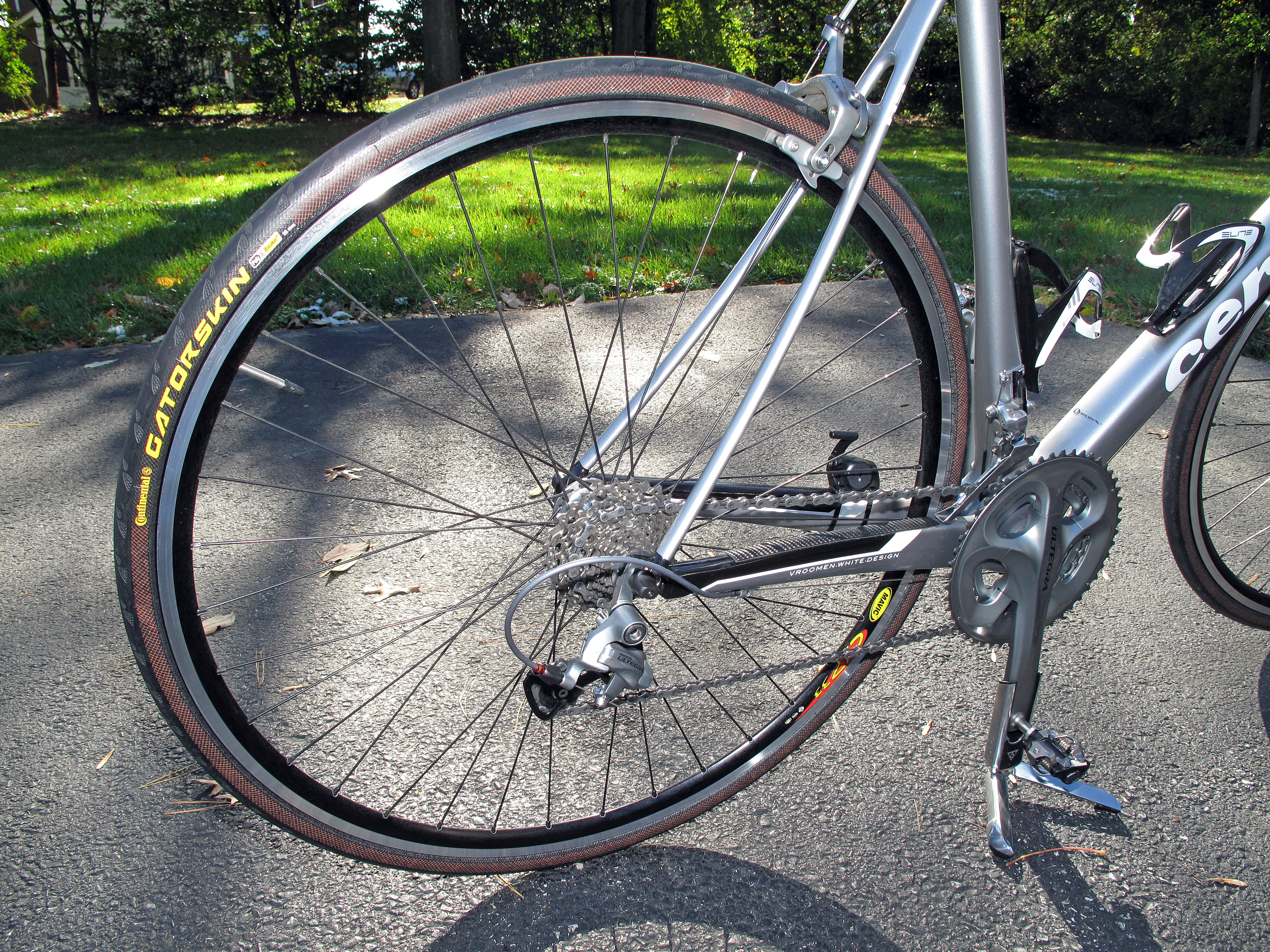 Rear wheel of a 2010 model year Cervélo RS road bike.